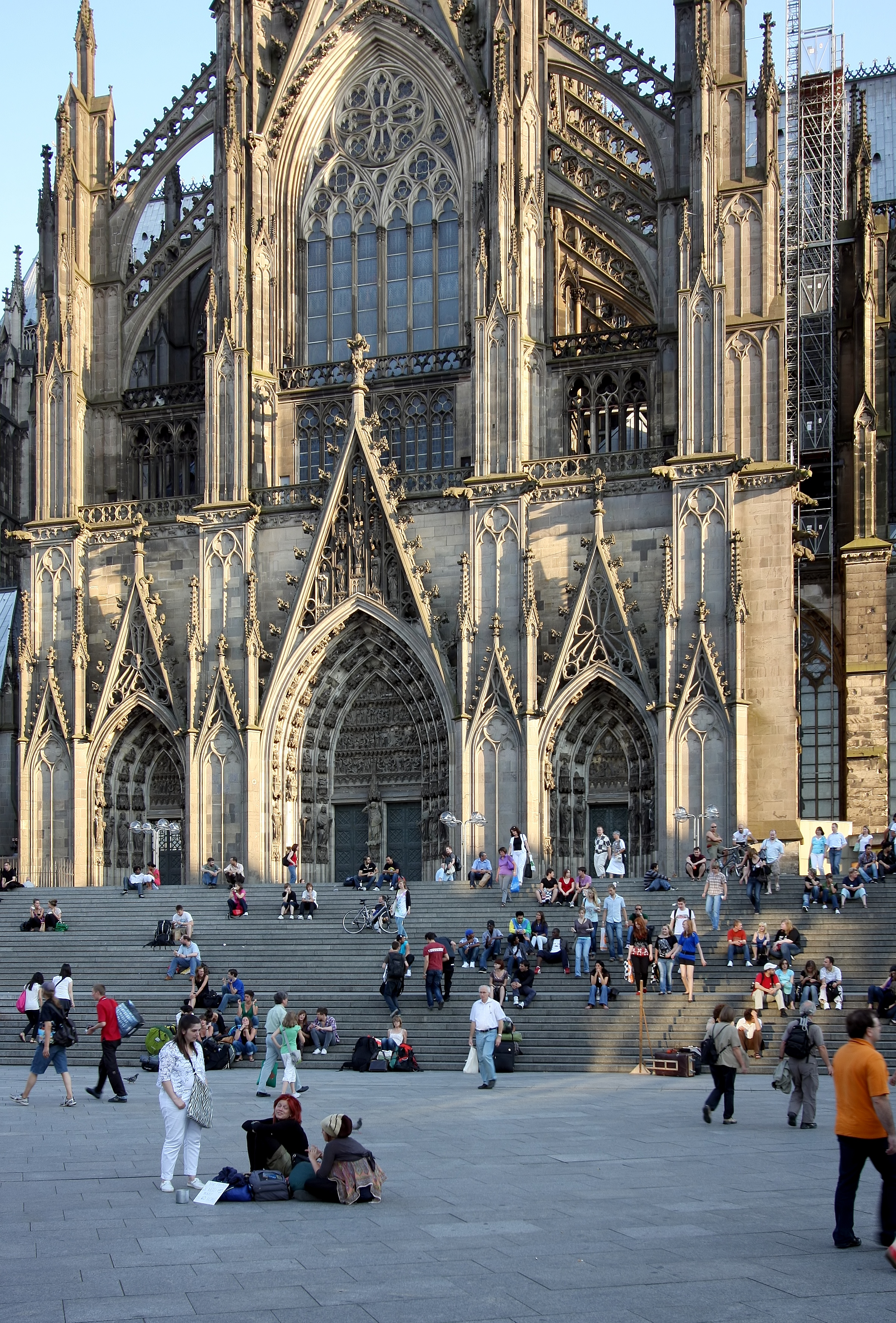 Northern porch of Cologne Cathedral. In the foreground the width stairs from the place before the railway central station up to the place around the cathedral.